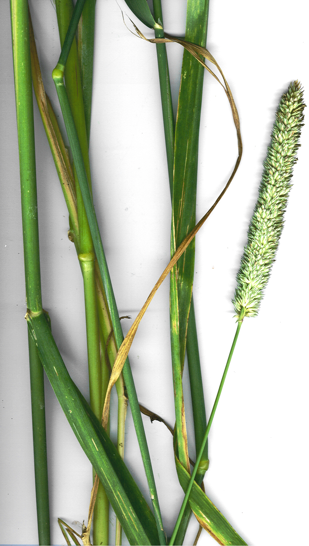 Phalaris aquatica (plant). Location: Maui, Crater rd Kula